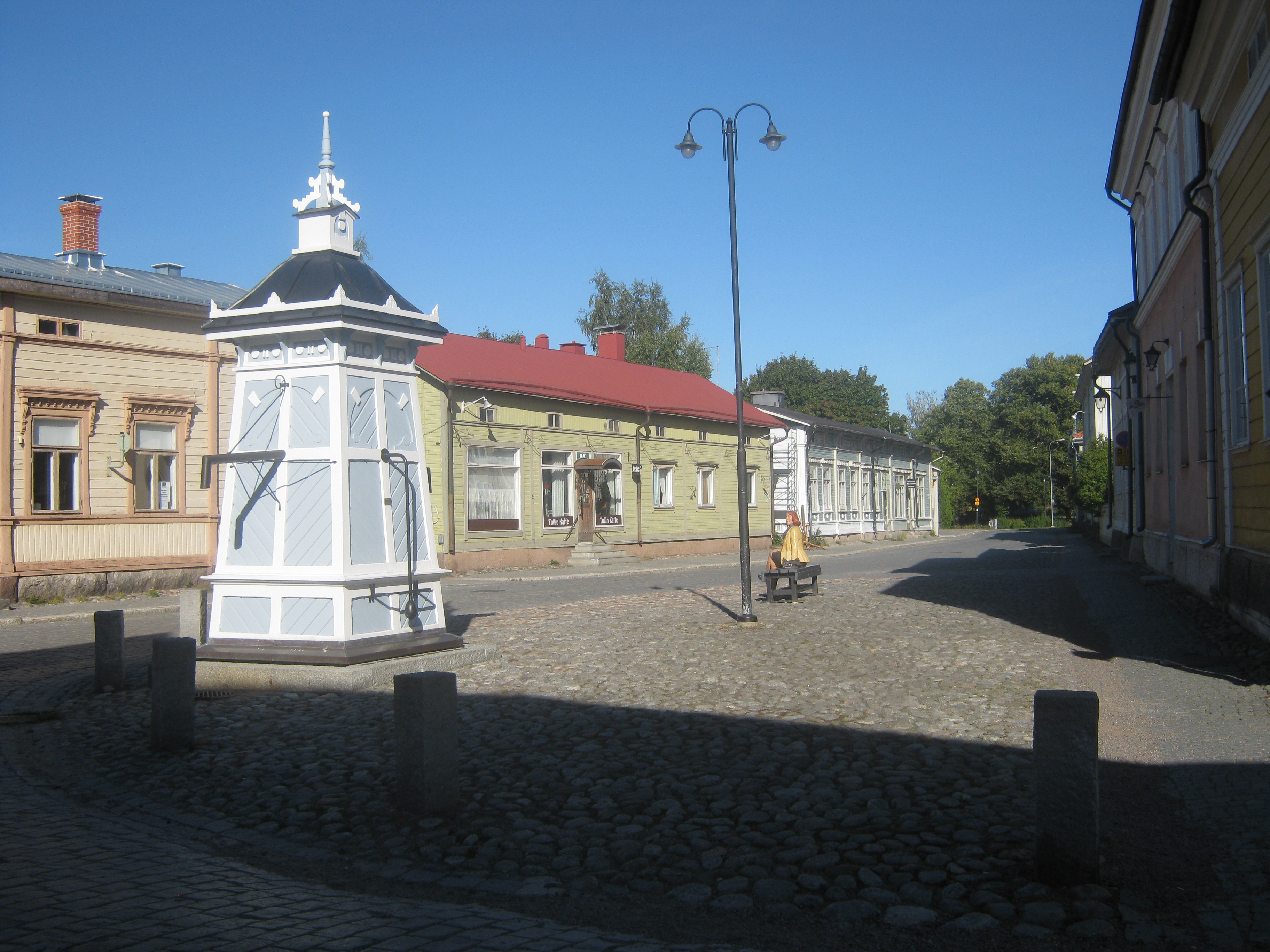 Hauenguano square at UNESCO World Heritage site Old Rauma, Finland.